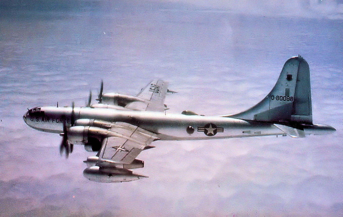 421st Air Refueling Squadron Boeing B-50D-90-BO Superfortress 48-0088, 1960 (in KB-50J air refueling tanker configuration). A/C sent to MASDC Feb 4, 1965. Declared excess Mar 23, 1965